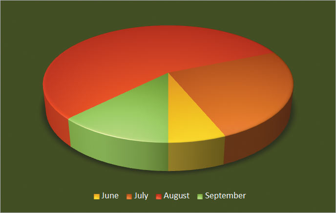 Created by Microsoft Office 2007